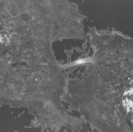 The same image as public domain image Image:Cytokinesis-electron-micrograph.jpg, but cropped to center the focal point on the cleavage furrow and remove the unsightly arrow.